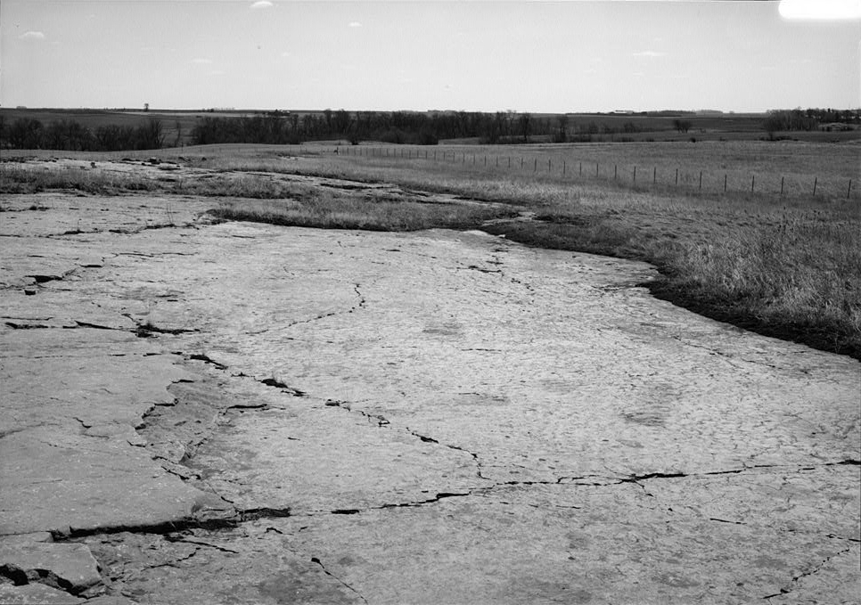 Jeffers Petroglyphs, Delton Township, Jeffers vicinity, Cottonwood County, Minnesota. General View Looking southeast.